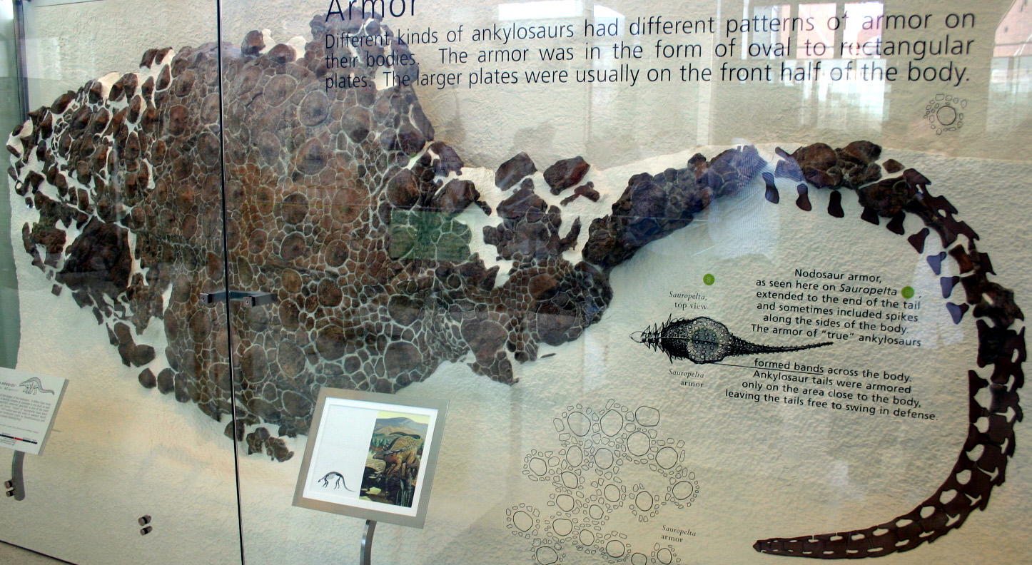 Sauropelta (shielded reptile)